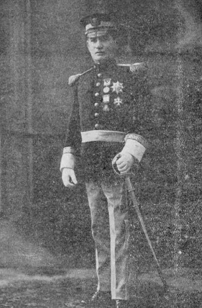 Image of Colonel José Semidei Rodríguez taken in 1920. This image is pre-1923, therefore copyright laws do not apply